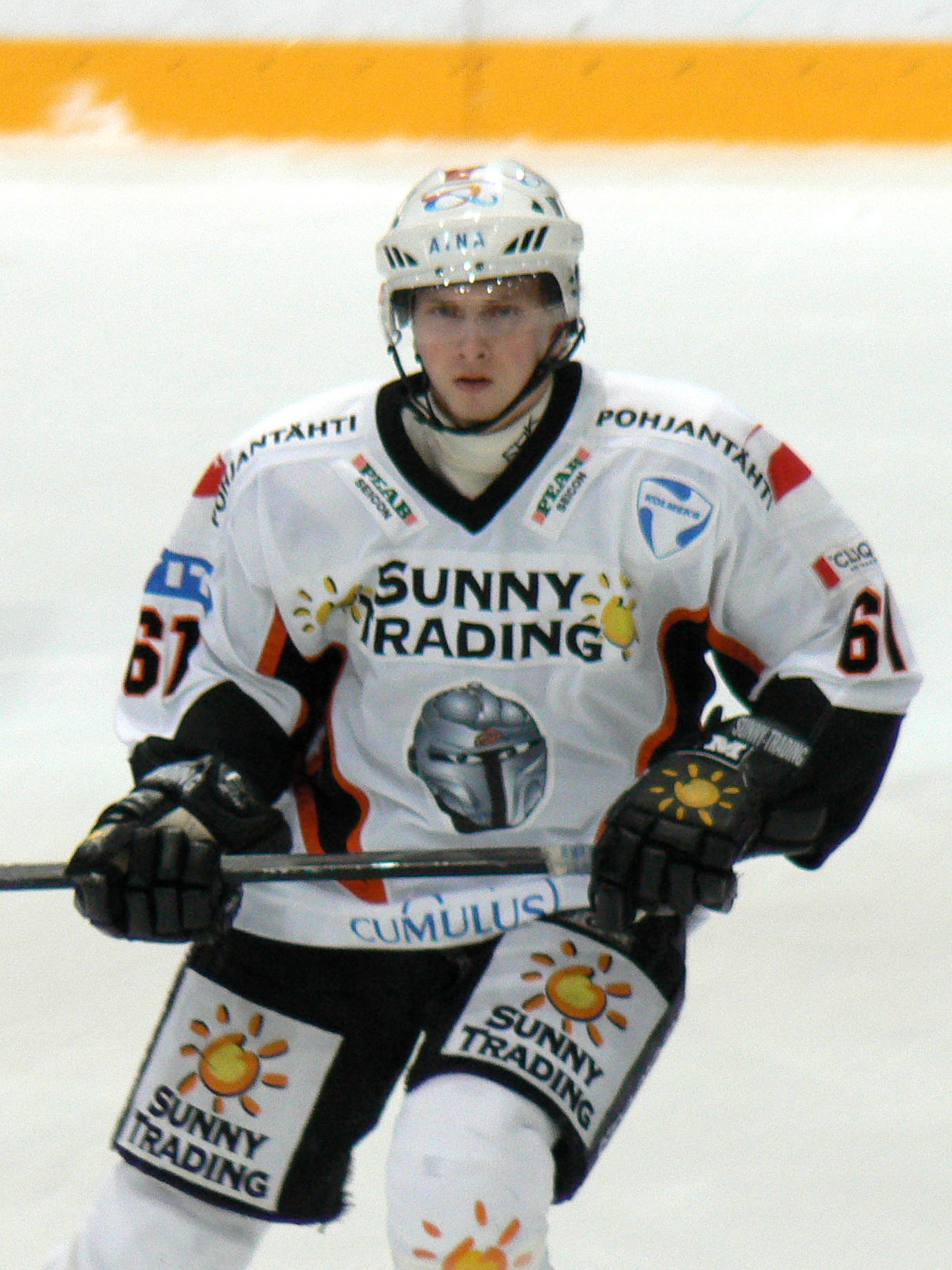 Finnish ice hockey forward Joona Karevaara playing for HPK Hämeenlinna in January, 2008.